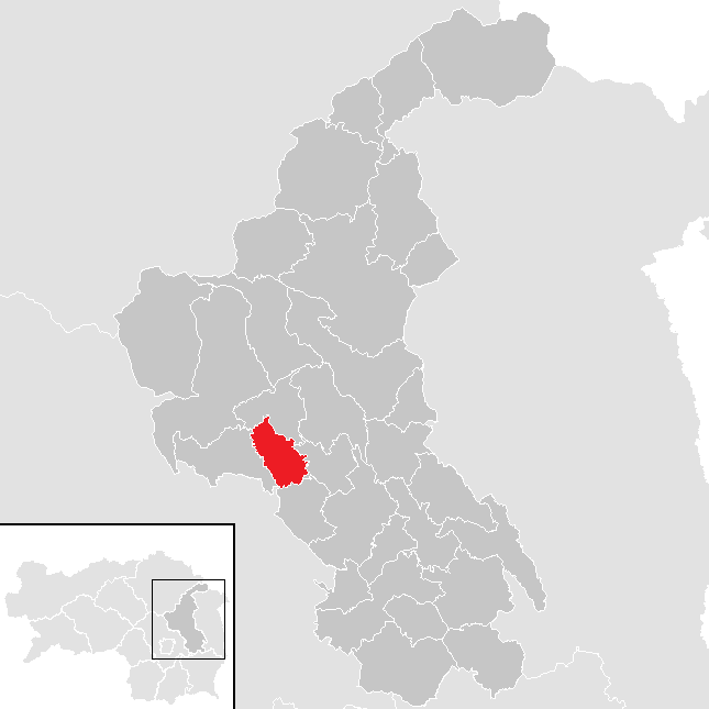 district Weiz